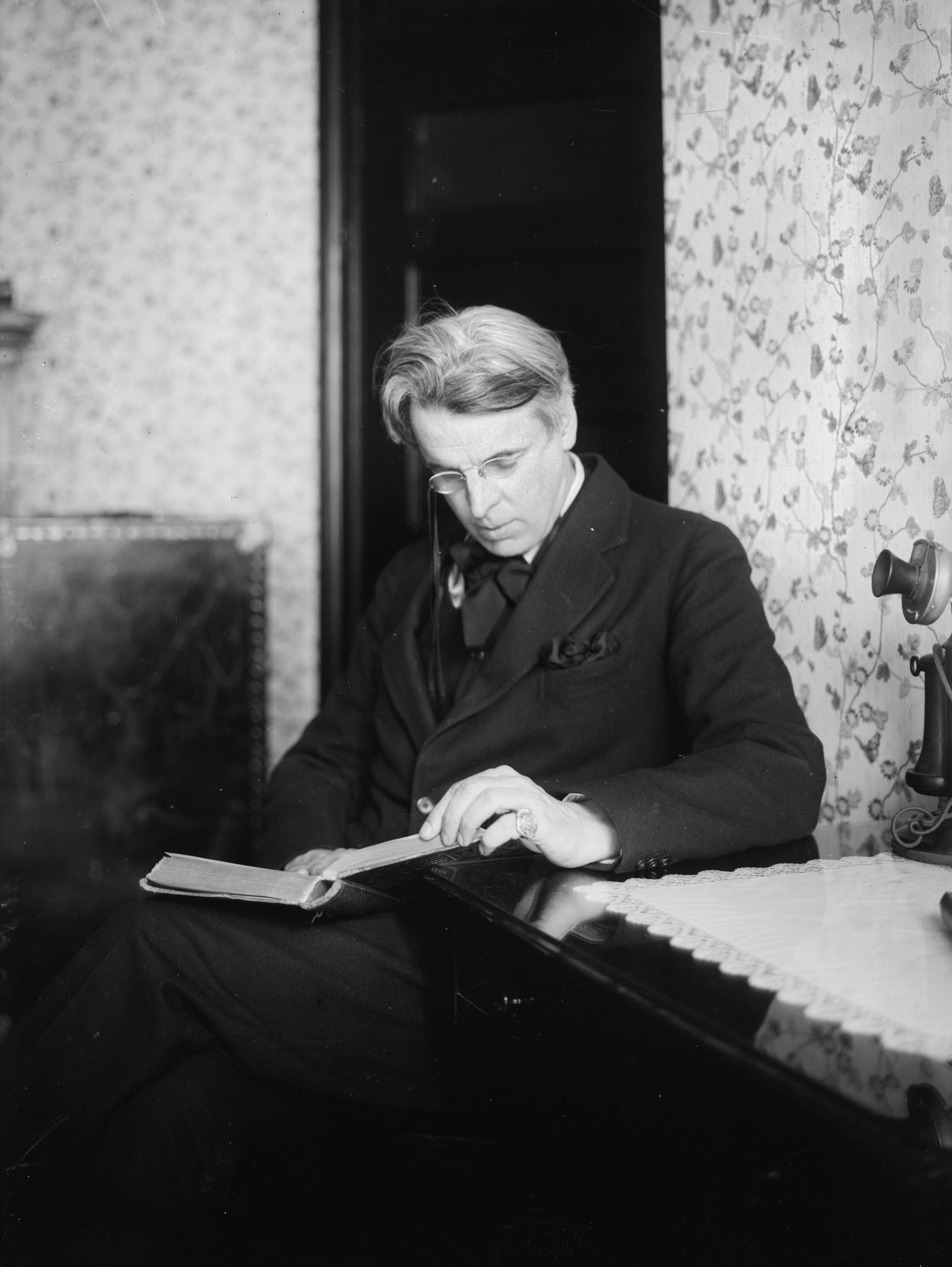 W.B. Yeats